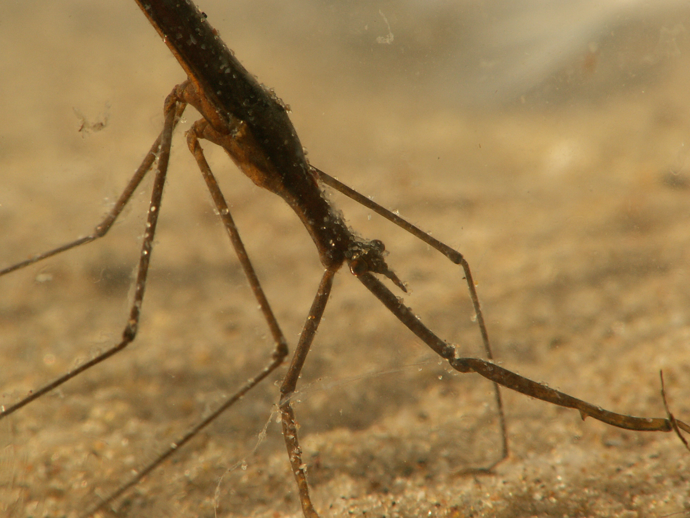 Ranatra Linearis from the Beemster, the Netherlands